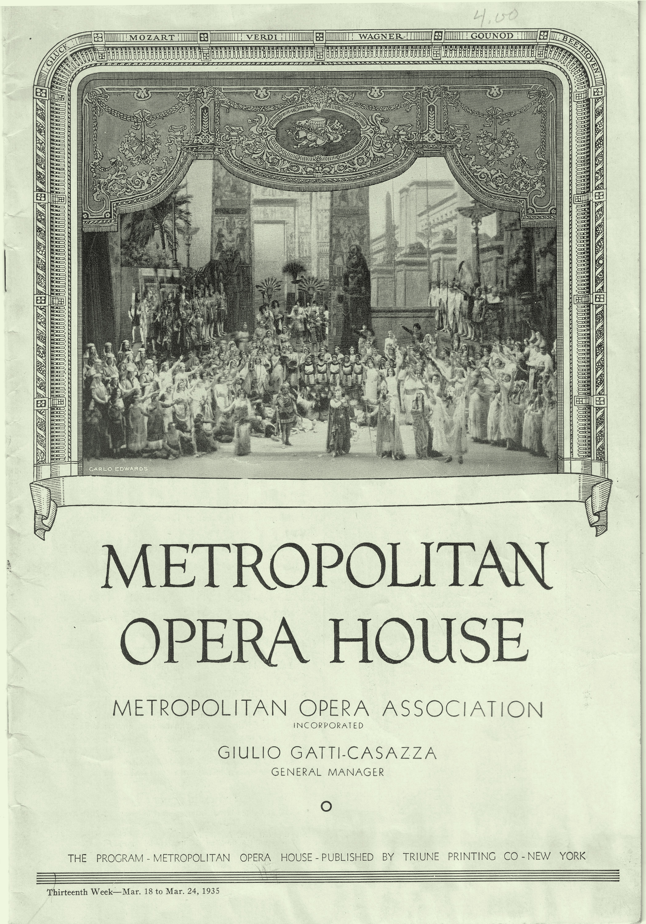 Cover illustration, Metropolitan Opera House (39th Street) program magazine, March 21, 1935